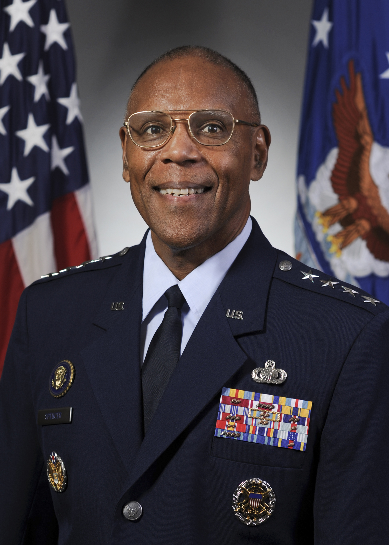 General Larry O. Spencer, USAF 37th Vice Chief of Staff of the United States Air Force (VCSAF)